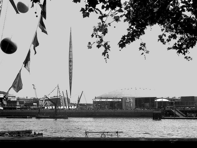 1951 South Bank Exhibition. Taken from The Victoria Embankment and shows the Skylon and Dome of Discovery.